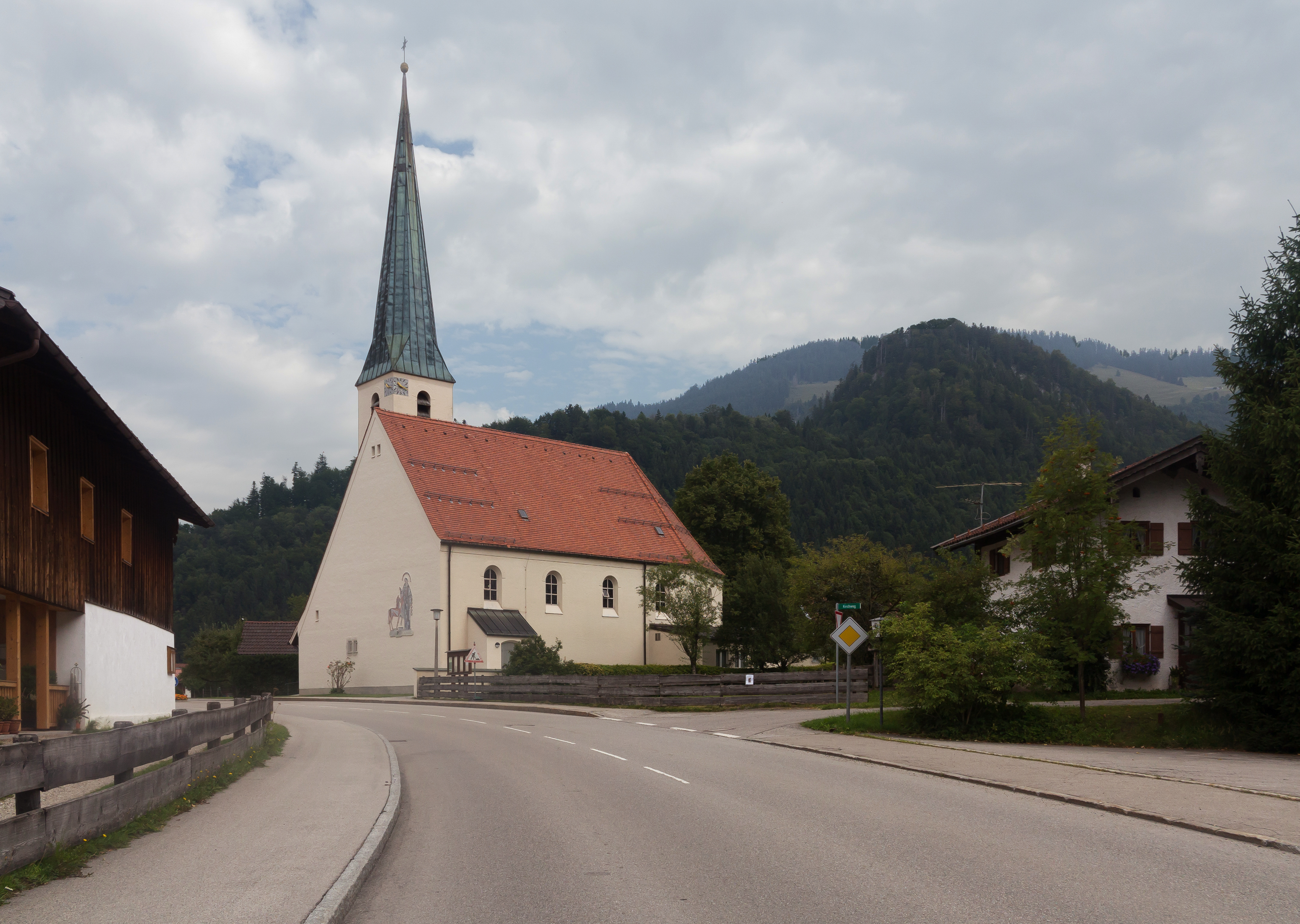 Oberwössen, church: Kirche Maria Sieben Schmerzen